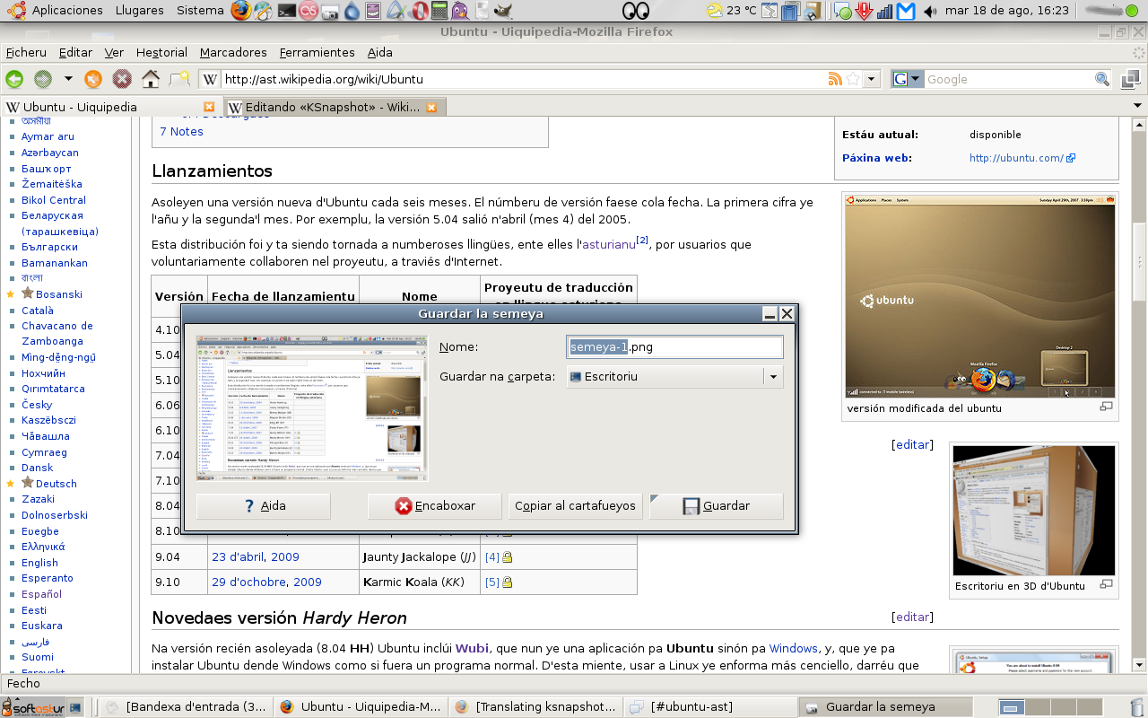 Screenshot of "Gnome-screenshot"